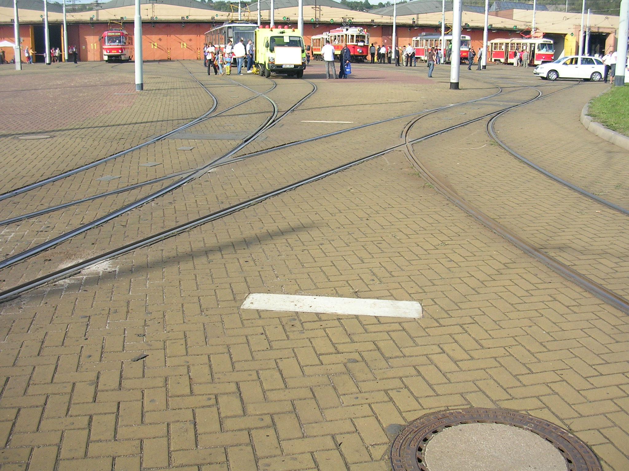 Visiting day in the tram depot Prague-Hloubětín, Czech Republic.